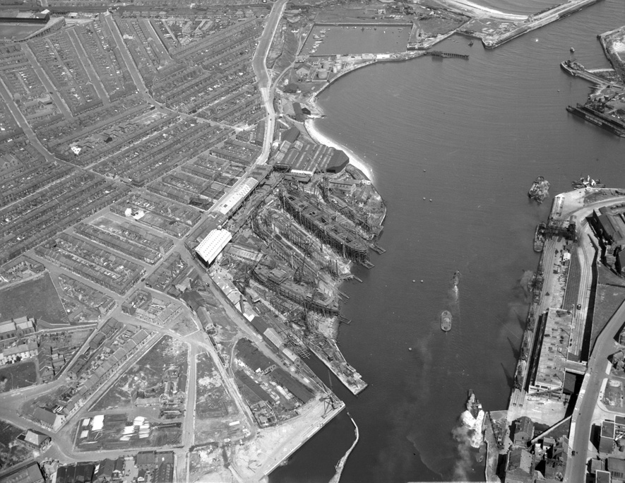 Aerial view of the North Sands shipyard of J.L. Thompson & Sons, Sunderland, May 1950 (TWAM ref. DT.TUR/2/4760D). This set celebrates the achievements of the famous Sunderland shipbuilding firm Joseph L. Thompson & Sons. The company’s origins date back to 1846 when the firm was known as Robert Thompson & Sons. Robert Thompson senior died in 1860, leaving his second son Joseph Lowes Thompson in control. In 1870 the shipyard completed its last wooden vessel and was then adapted for iron shipbuilding. By 1880 the firm had expanded its operations over much of North Sands and in 1884 completed the construction of Manor Quay, which served as fitting out and repair facilities. For many years in the late nineteenth century the yard was the most productive in Sunderland and in 1894 had the fourth largest output of any shipyard in the world. The Depression affected the firm severely in the early 1930s and no vessels were launched from 1931 to 1934. However, during those years the company developed a hull design giving greater efficiency and economy in service. During the Second World War the prototype developed by Joseph L. Thompson & Sons proved so popular that it was used by the US Government as the basis of over 2,700 Liberty ships built at American shipyards between 1942 and 1945. After the War the North Sands shipyard went on to build many fine cargo ships, oil tankers and bulk carriers. Sadly the shipyard closed in 1979, although it briefly reopened in 1986 to construct the crane barge ITM Challenger. (Copyright) We're happy for you to share these digital images within the spirit of The Commons. Please cite 'Tyne & Wear Archives & Museums' when reusing. Certain restrictions on high quality reproductions and commercial use of the original physical version apply though; if you're unsure please